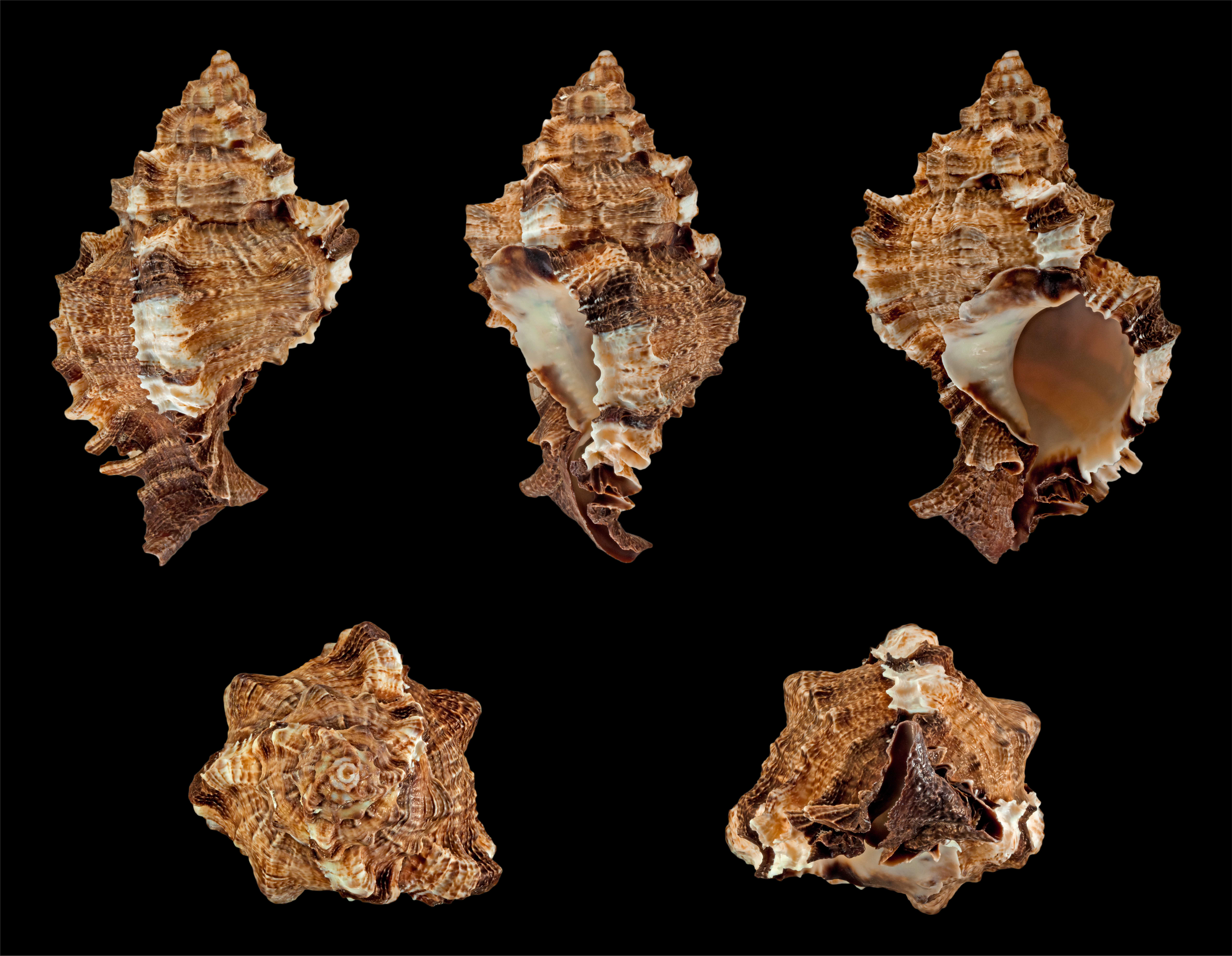 Phyllonotus pomum (Gmelin, 1791), Apple Murex; Length 10.1 cm; Originating from the Florida, USA; Shell of own collection, therefore not geocoded.